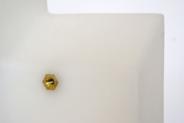 Brass Insert Molded into a LLDPE tank.